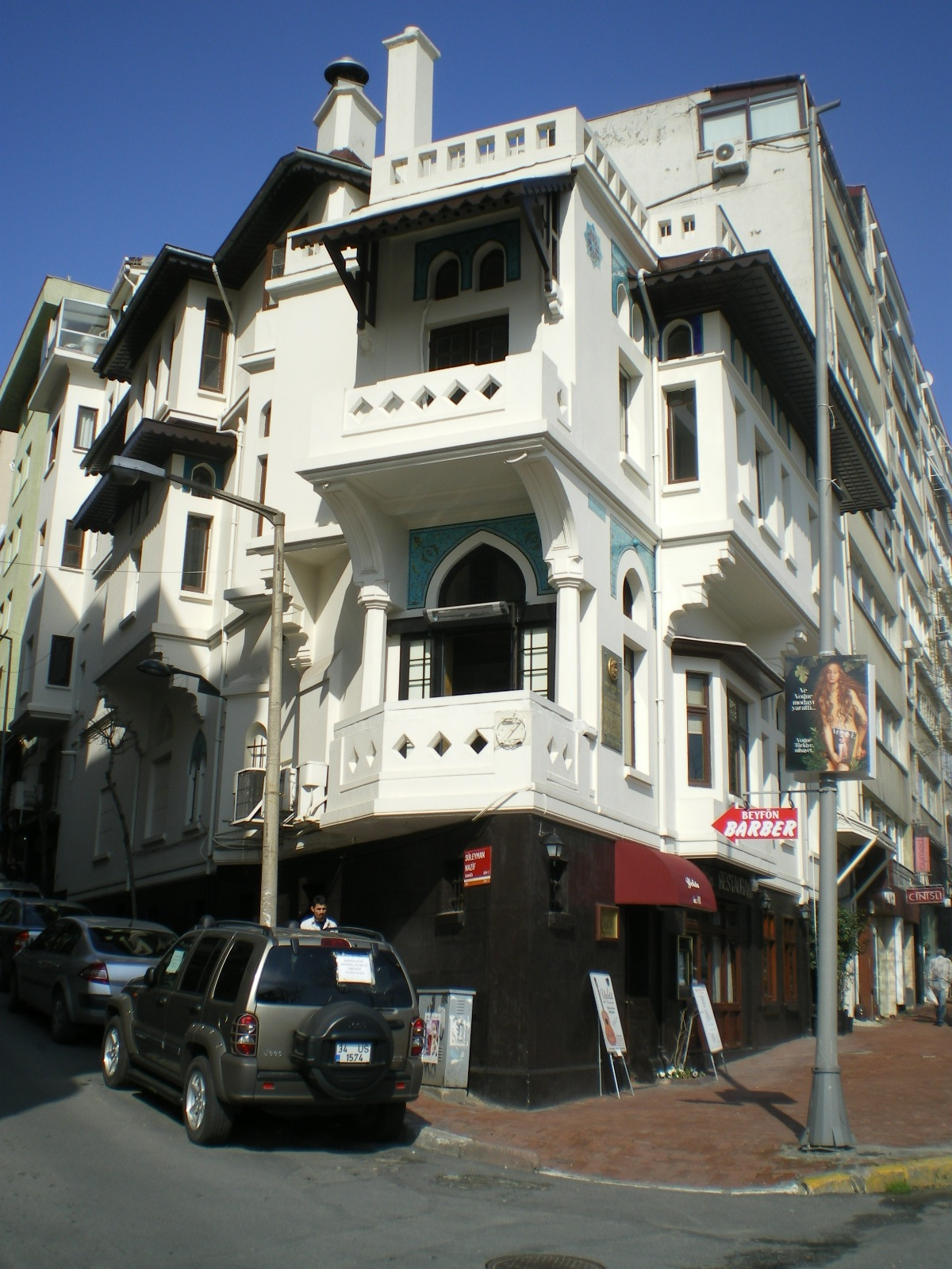 The house of architect Vedat Tek on Valikonağı Caddesi, Nişantaşı, İstanbul.